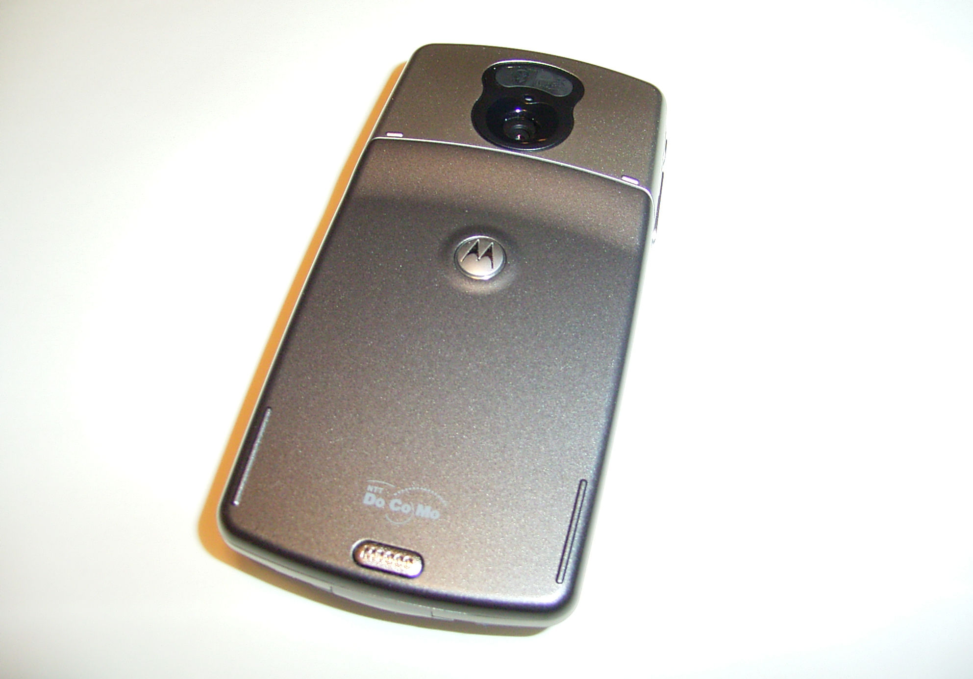 FOMA M1000(M1000)